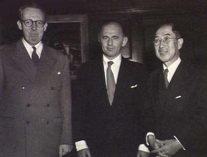 Left to right: Australian Ambassador to Japan Dr E R Walker, Australian Minister for Air and Navy William McMahon, Prince Tokugawa of the Japanese imperial family. Australian Embassy, Tokyo, Japan.